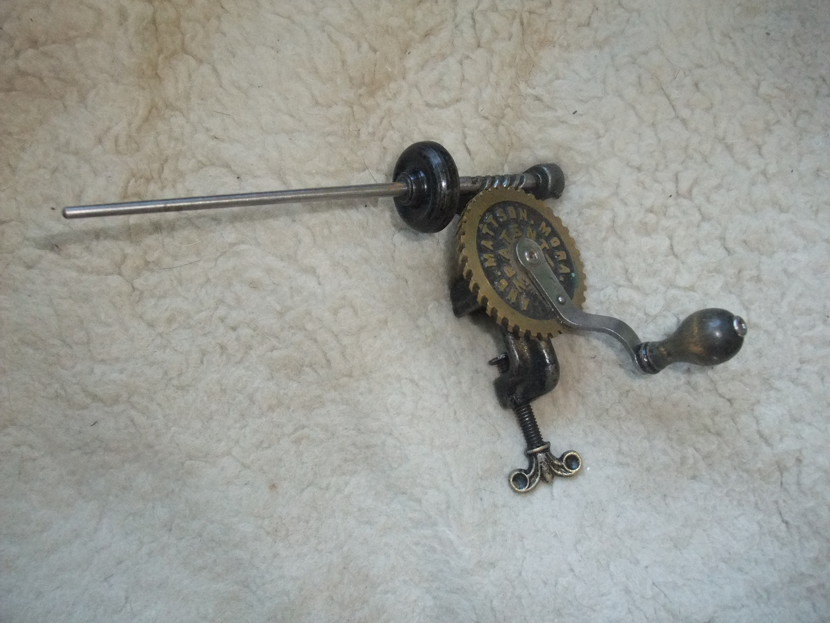 Textile machine